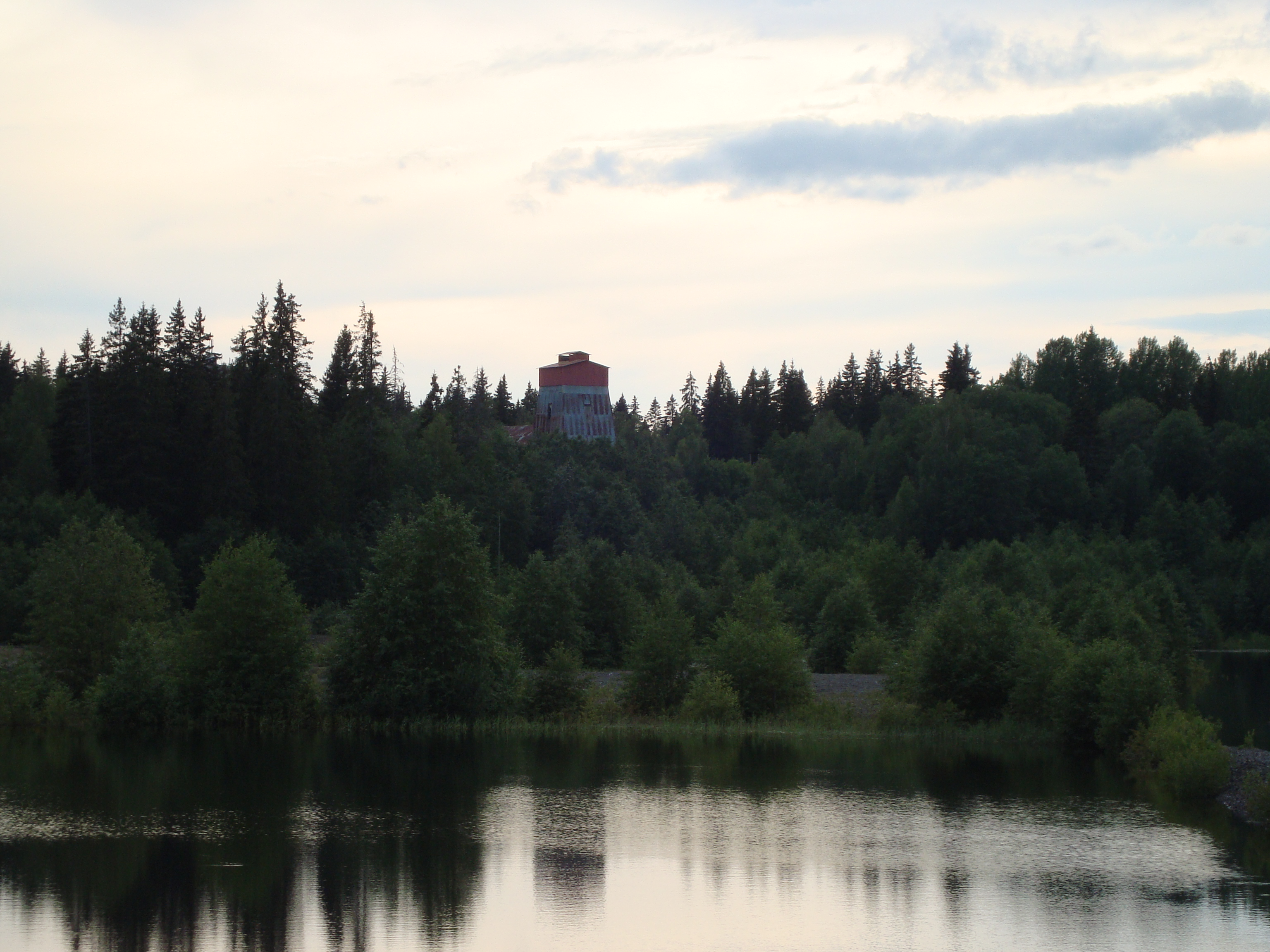 Smältarmossgruvan abandoned iron mine, Garpenberg, Sweden. View from Finnhytte Dammsjön.